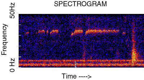 Audio spectrogram of an iceberg grounding